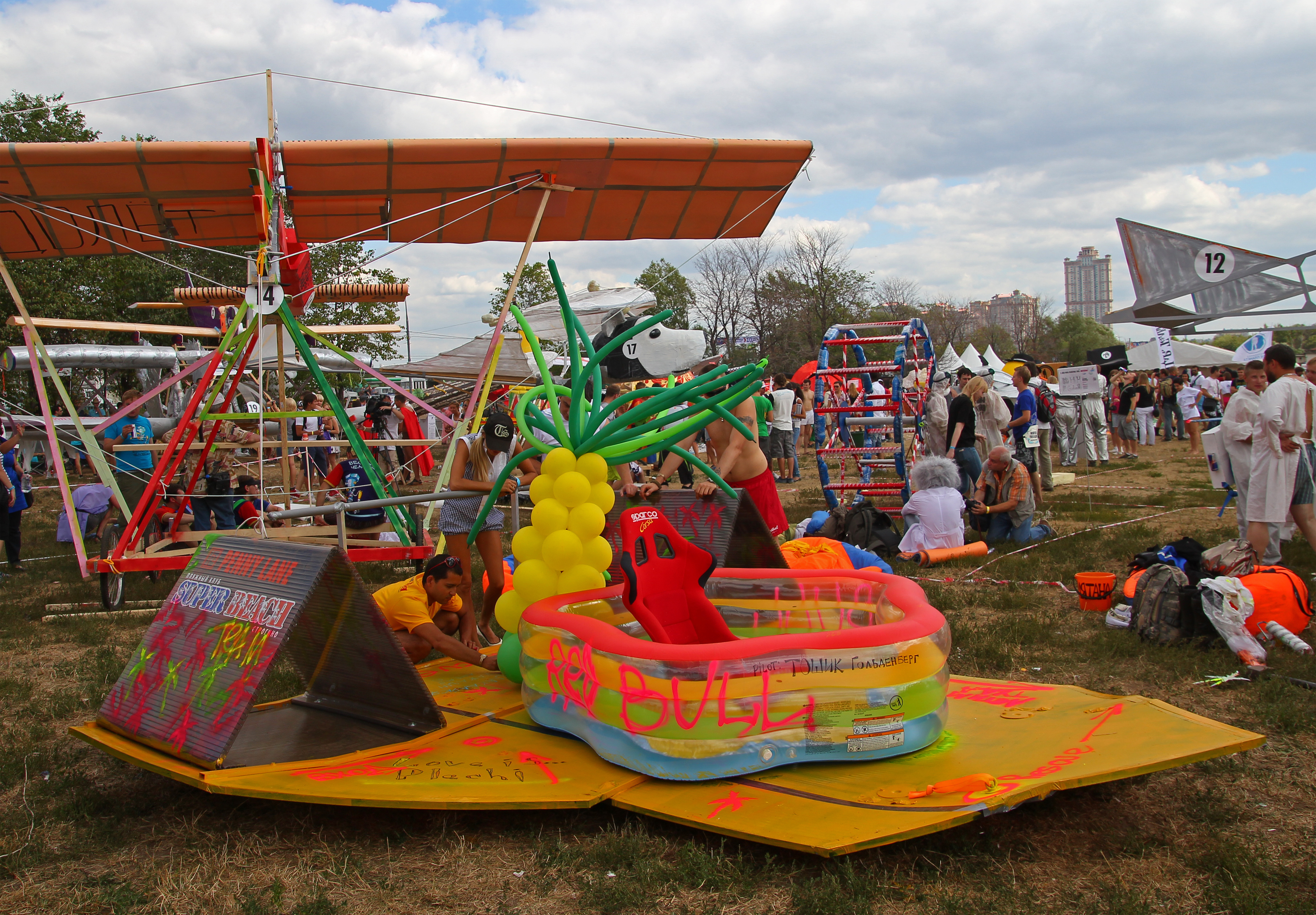 Red Bull Flugtag in Moscow, August 2011. Exposition of flying machines which took part on contest.